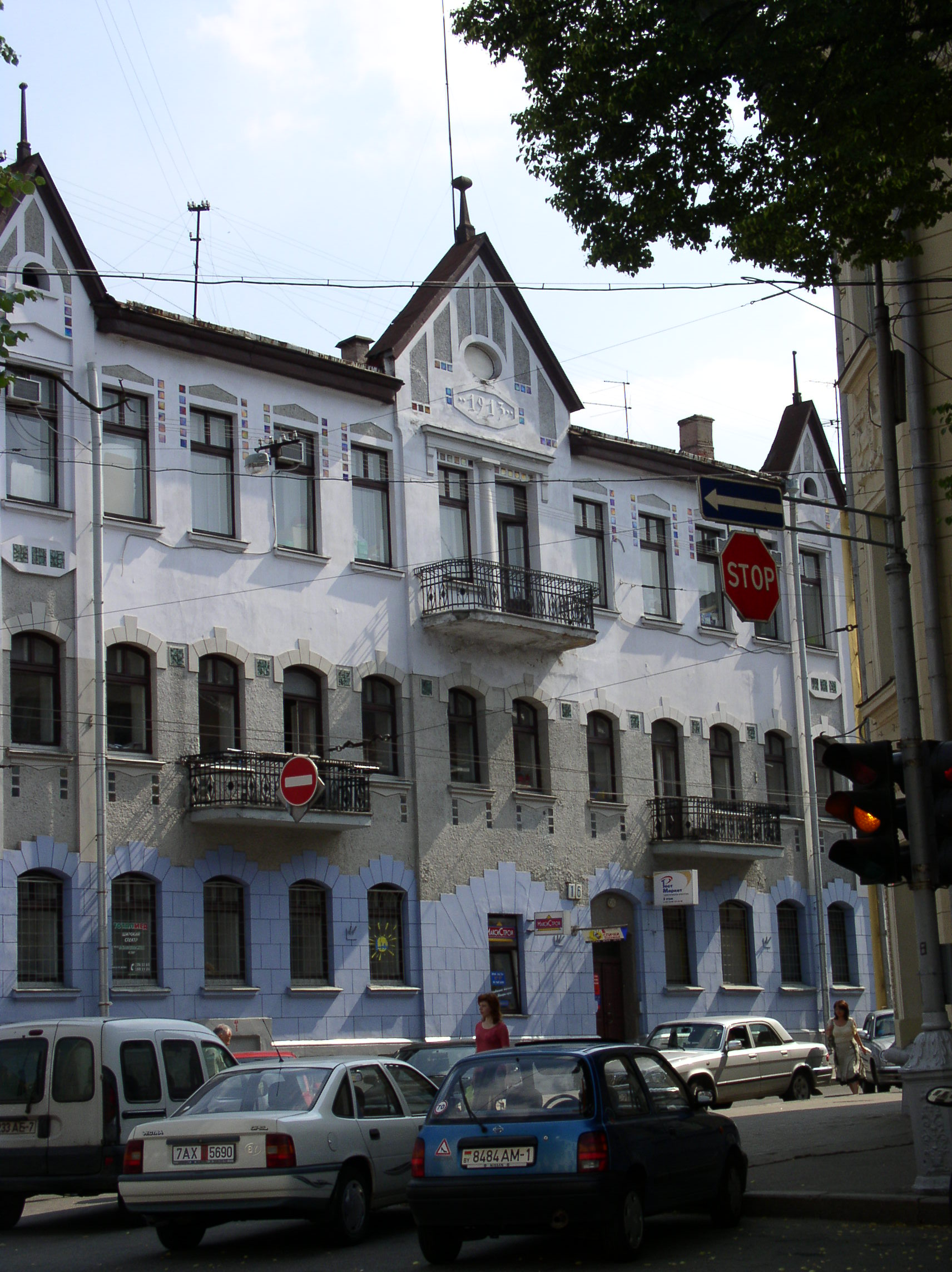 International street, 16. Minsk, Belarus.